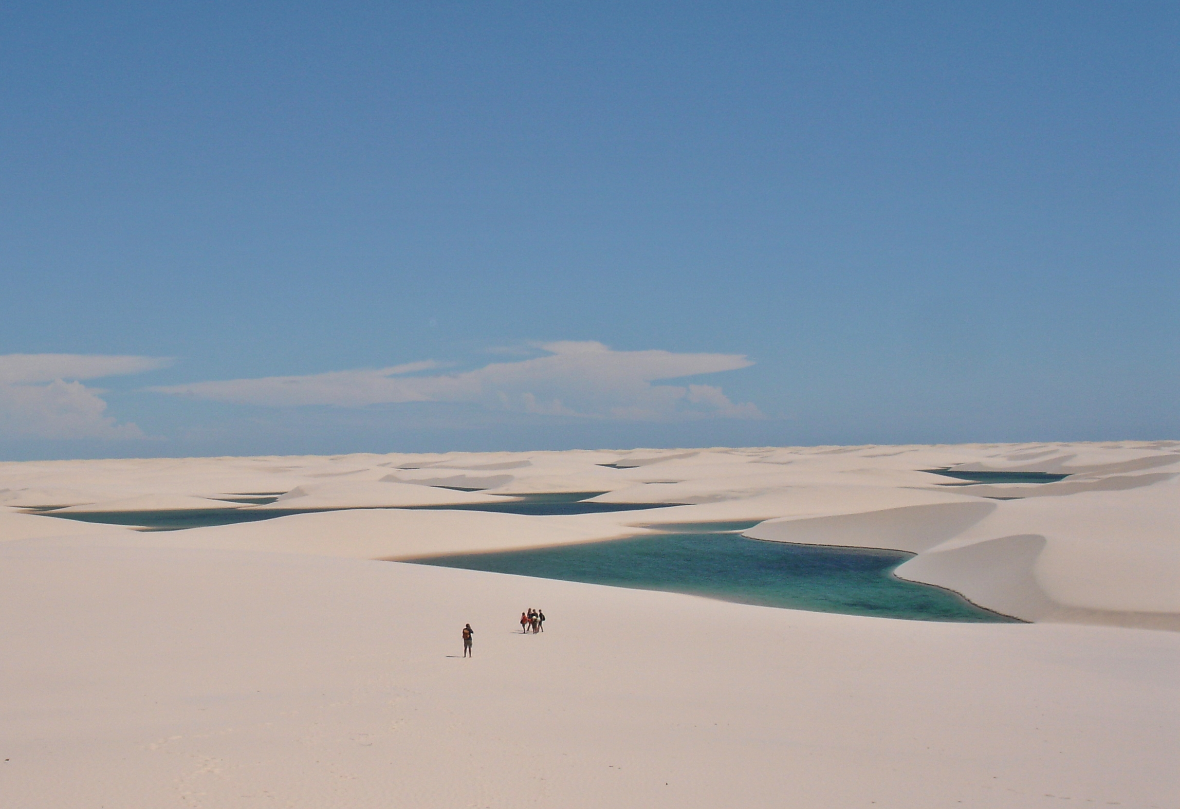 View from the top of the dune in the path to the Lagoa Bonita